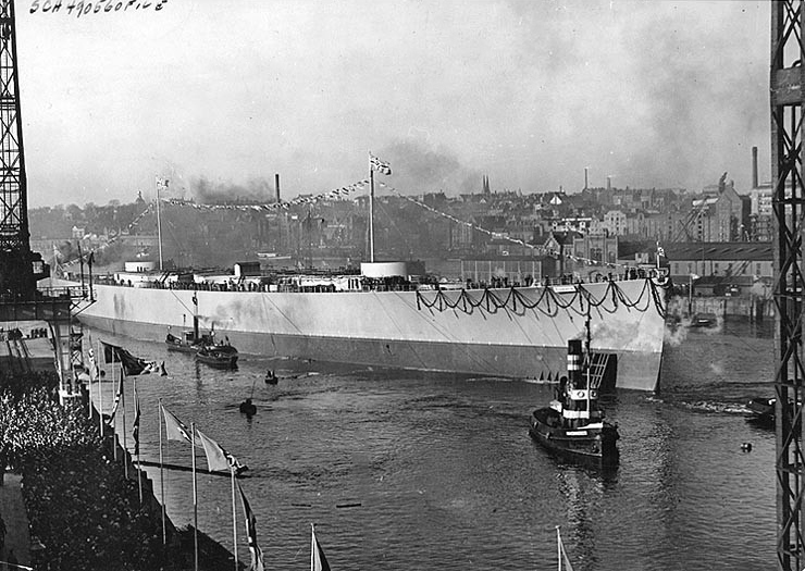 Bismarck (German Battleship, 1940-41) Afloat just after launching, at the Blohm & Voss shipyard, Hamburg, Germany, 14 February 1939.